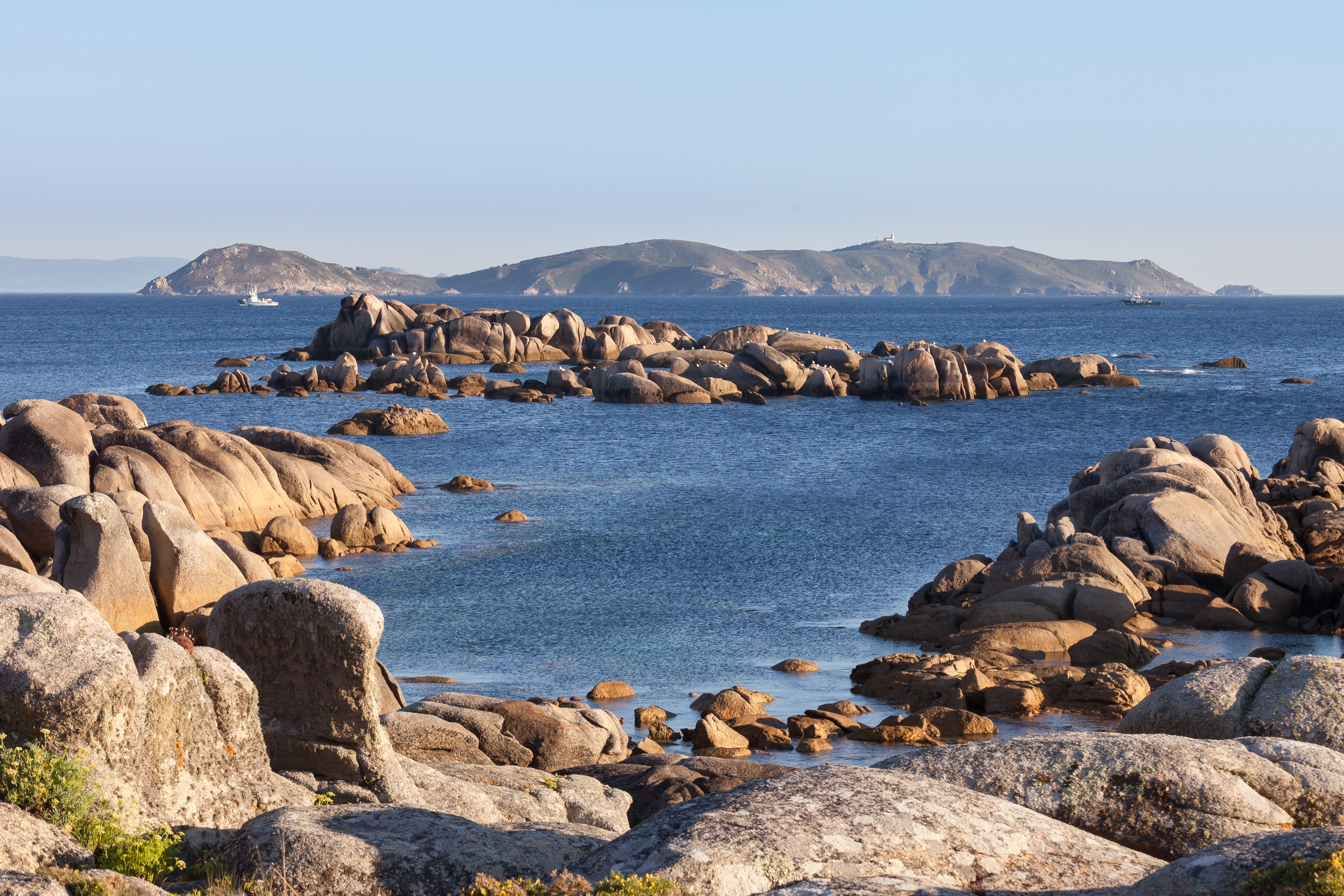 Sea and rocks in the ria of Pontevedra. Ons island at background. San Vicente do Mar, O Grove, Galicia, Spain.